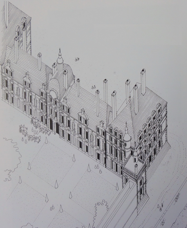 Hotel de Never (Gonzaga). Paris, early XVII century